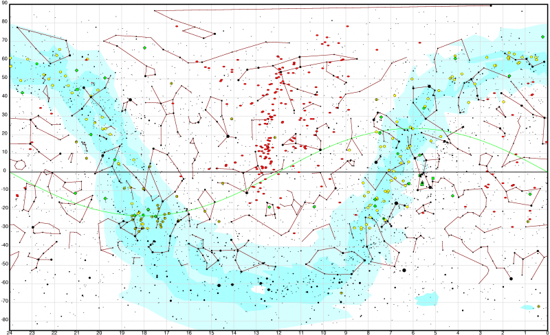 Distribution of Herschel 400 objects. Red = Galaxies, Green = Nebulae, Yellow = Star Clusters Author = Jim Cornmell 15:31, 22 August 2006 (UTC)